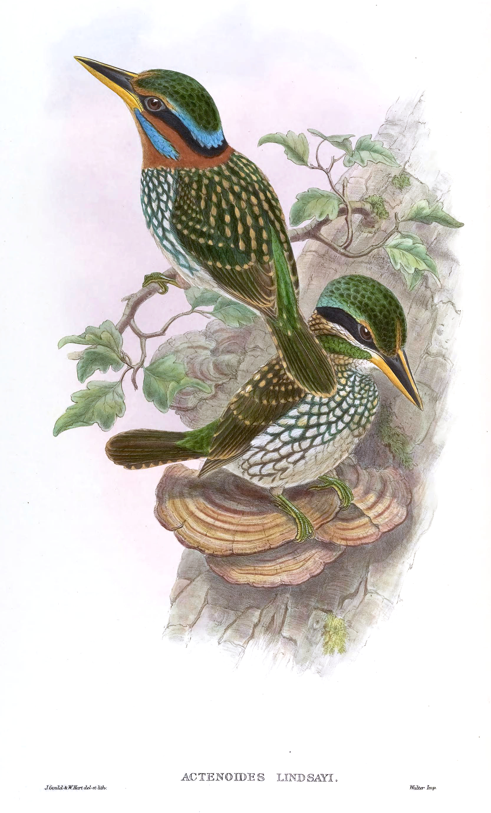 Actenoides lindsayi